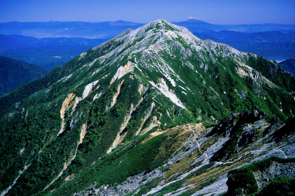 Mount Renge seen from Mount Harinoki in Hida Mountains, Japan.